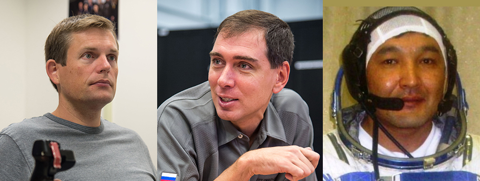 The Soyuz TMA-18M launching crew members during training sessions. From left: European astronaut Andreas Mogensen, Russian cosmonaut Sergey Volkov and Kazakh cosmonaut Aidyn Aimbetov.